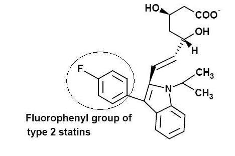 Fluvastatin